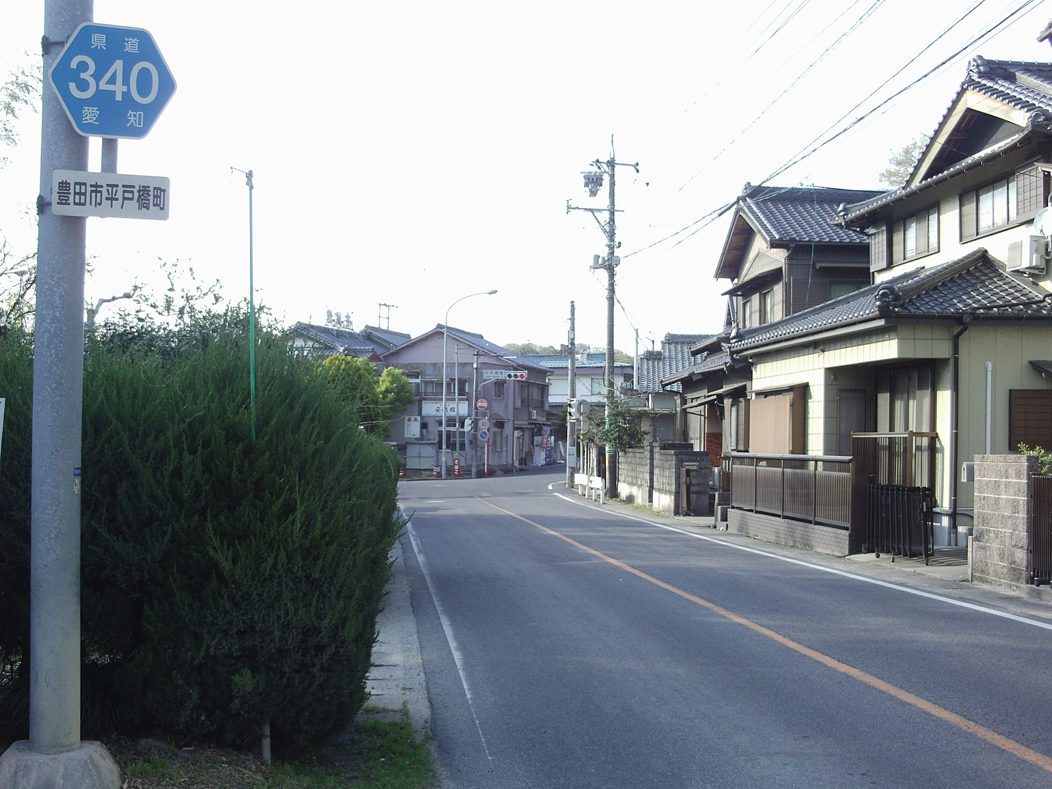 Aichi prefectural road No.340 in Hiratobashicho, Toyota, Aichi.